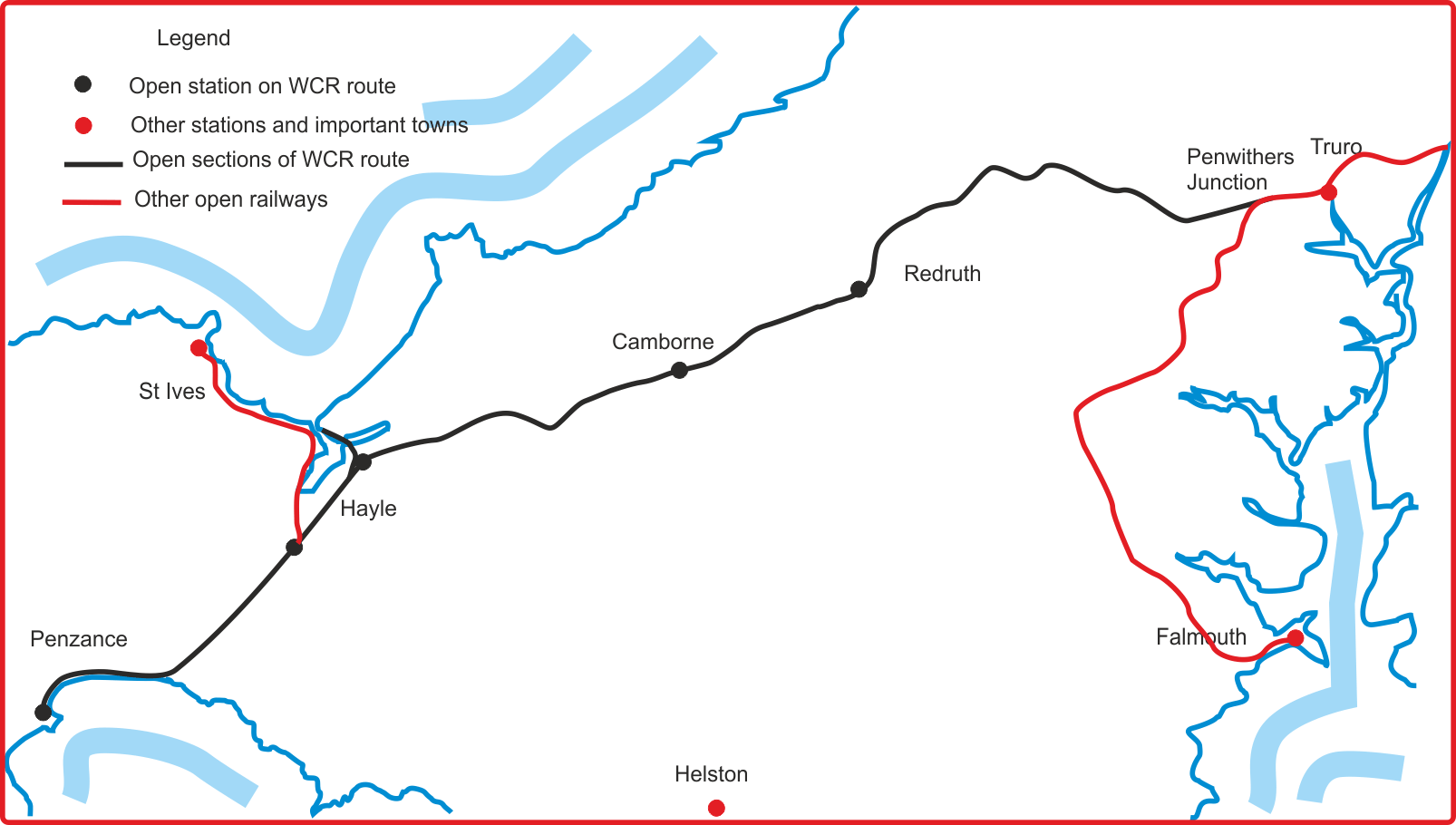 Map of the former Cornwall Railway England in 2012 showing lines remaining open and contiguous railways